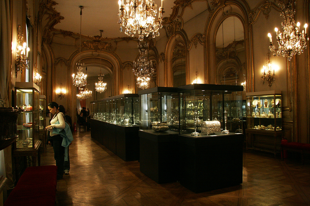 The silverware and china collections at the National Museum of Decorative Art, Buenos Aires.